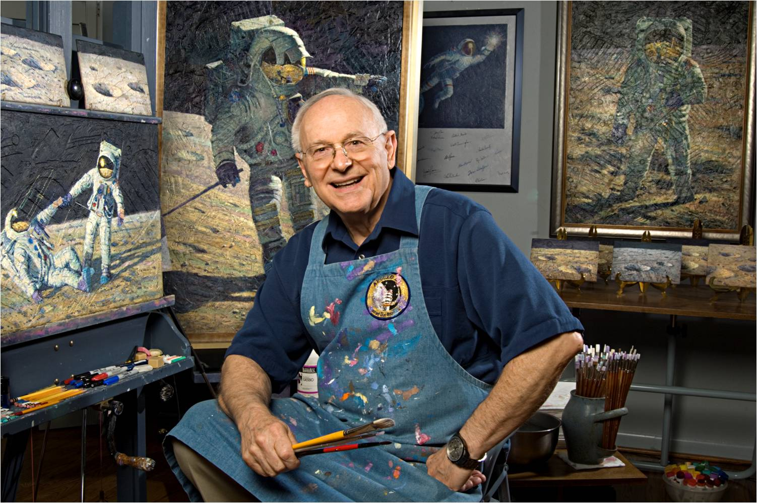 A photo of Alan Bean in the National Air and Space Museum.